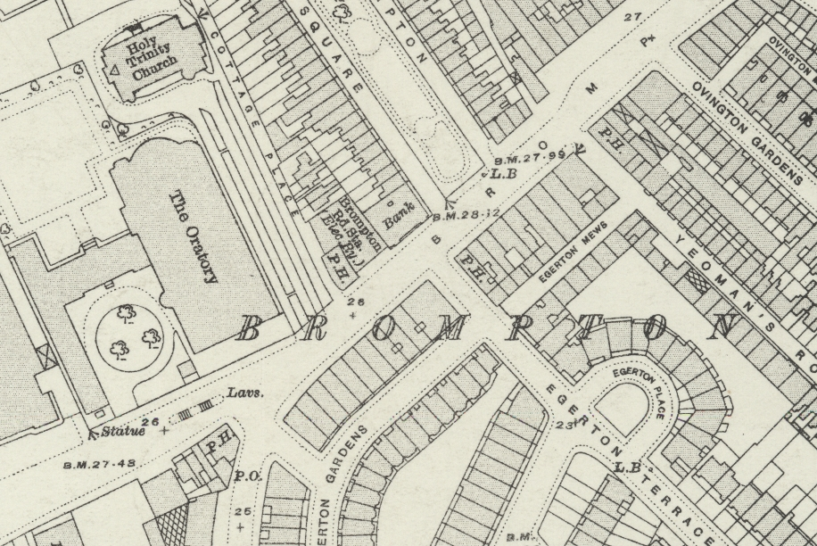 Ordnance Survey map showing Brompton Road station on the Great Northern, Piccadilly and Brompton Railway. Original map scale: 25 inches to One Mile/880 feet to One Inch.